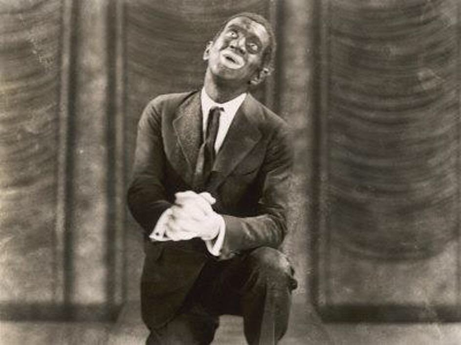 Description: Warner Bros. publicity photo for the film The Jazz Singer (1927), featuring Al Jolson as Jack Robin, in blackface, performing "My Mammy"